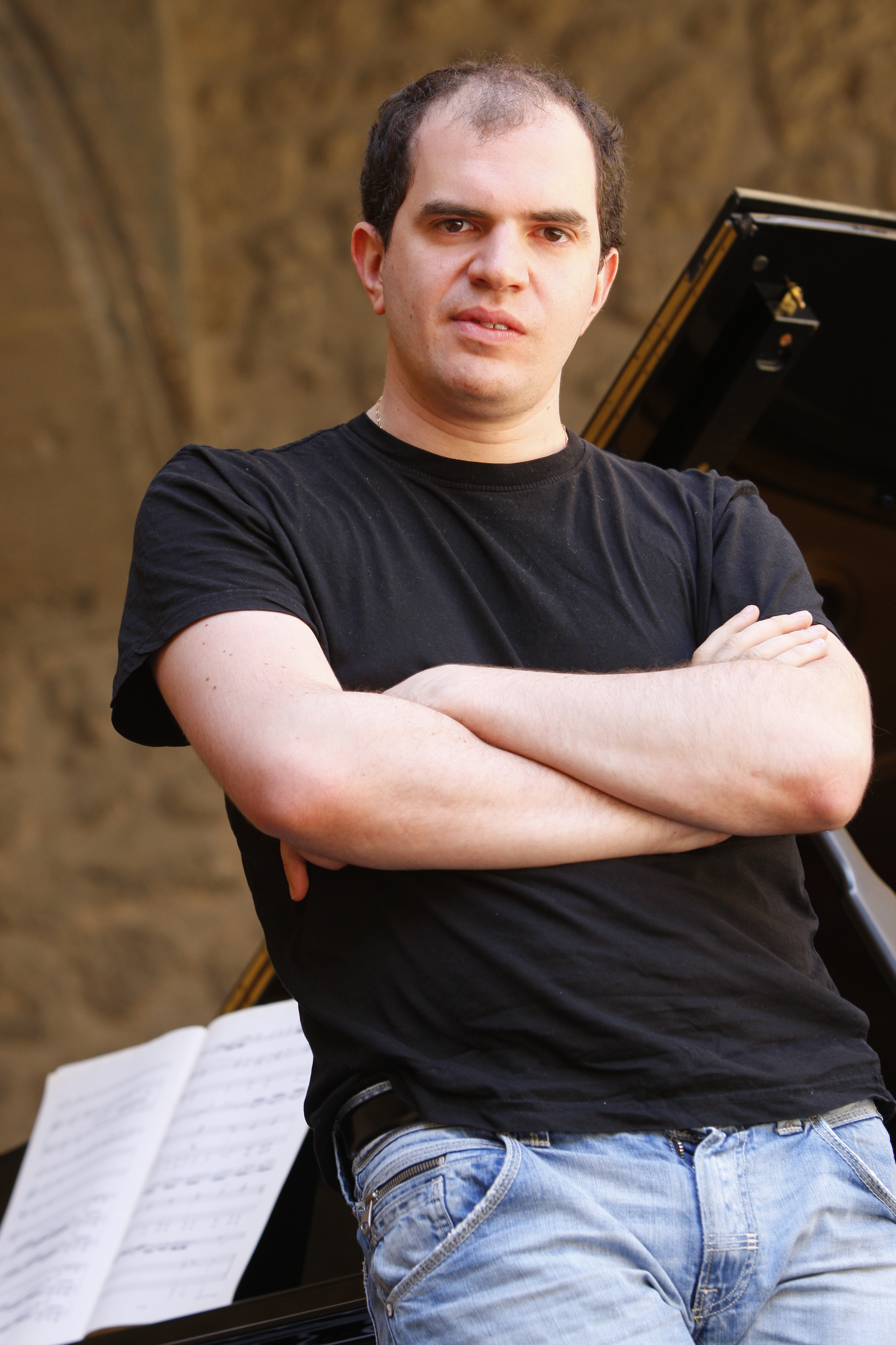 Kirill Gerstein at the Festival International de Musique de Chambre de Salon-de-Provence, France, 2009